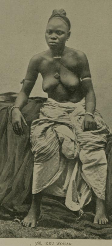 Photo of Kru woman